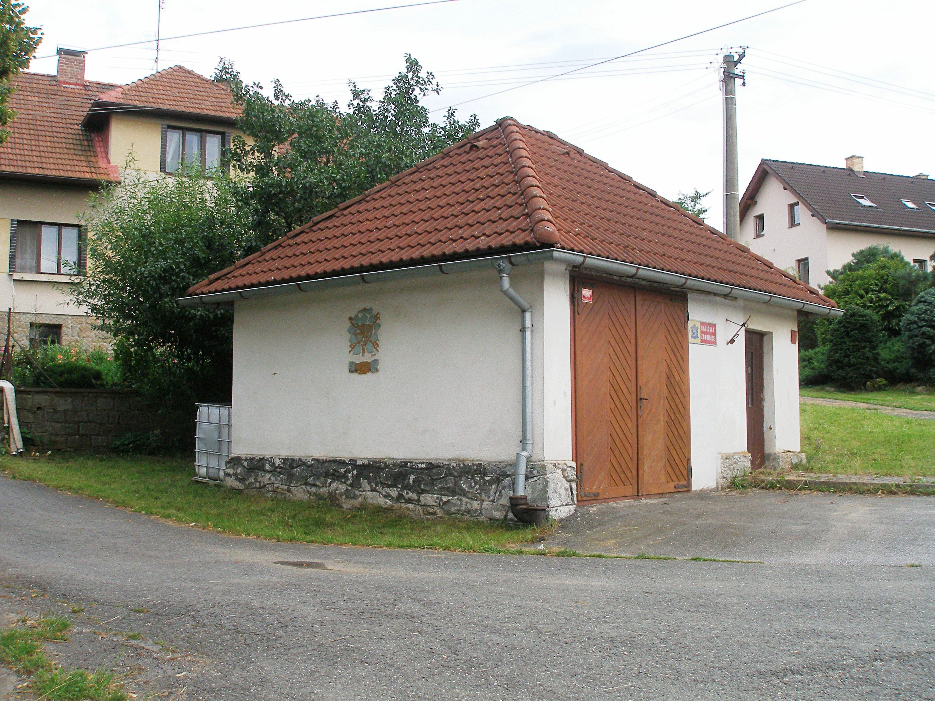 The firehouse in Hojanovice